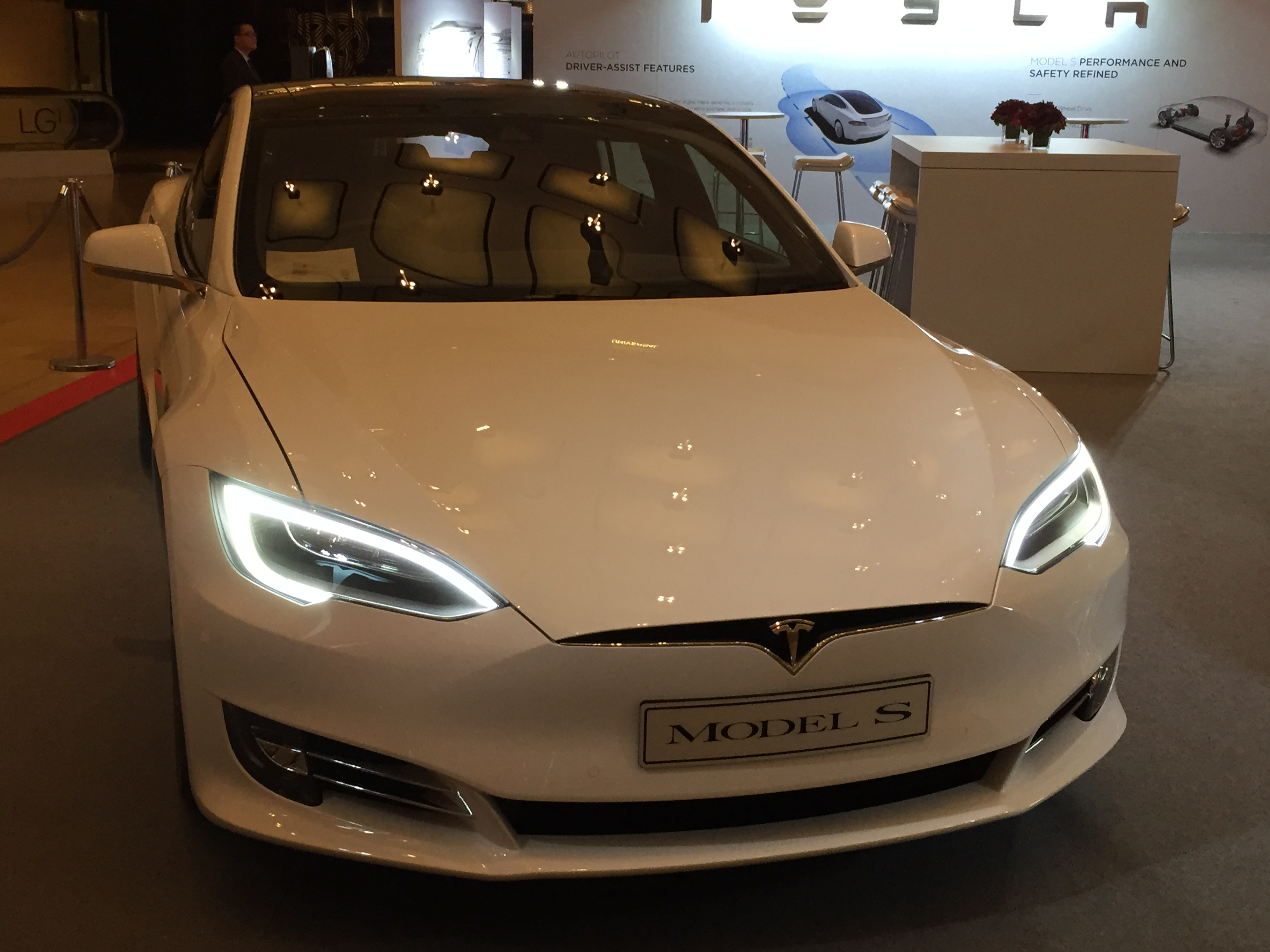 Front side of a Solid White Tesla Model S on display at the Pacific Place Mall in Admiralty, Hong Kong.